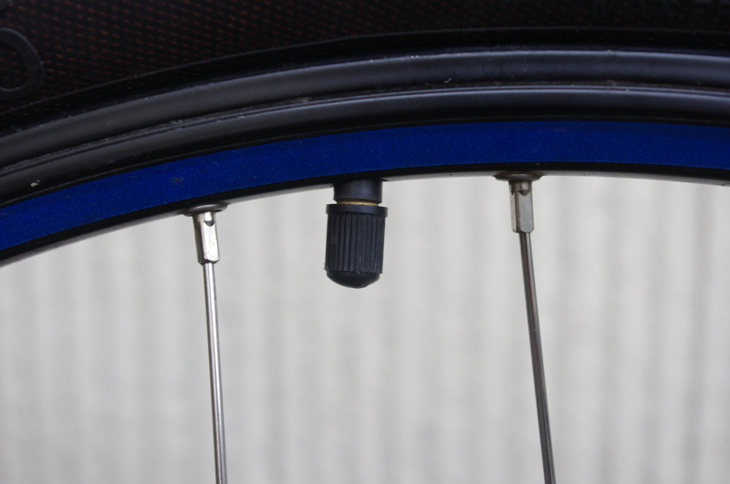 valve protection